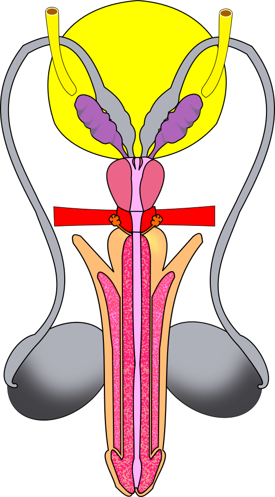 unlabeled diagram of human male reproductive tract